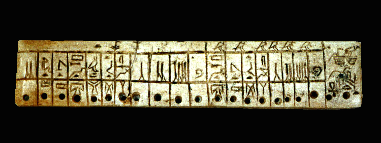 Ivory plaque with the name of Nebty Djeserty (ie. Sekhemkhet) and a list of linen fabrics. The inscription in the lower section of the plaque describes several different types of clothes such as bed sheets, shirts, nightgowns, vestments and even underwear. The central section names them or describes their size and colour. The upper section bears the reading "the king lives!", at the right several Horus falcons are depicted, the line on which they sit ends in an ostrich feather (a symbol of light and harmony) Provenance: Saqqara. Step Pyramid of Horus Sekhemkhet. Found in 1955, by Z. Goneim, the floor of the main hall of the pyramid. Cairo, Egyptian Museum, JE 92679 Goneim, Z. 1957. "Horus Sekhem-Khet". Pl LXV b.